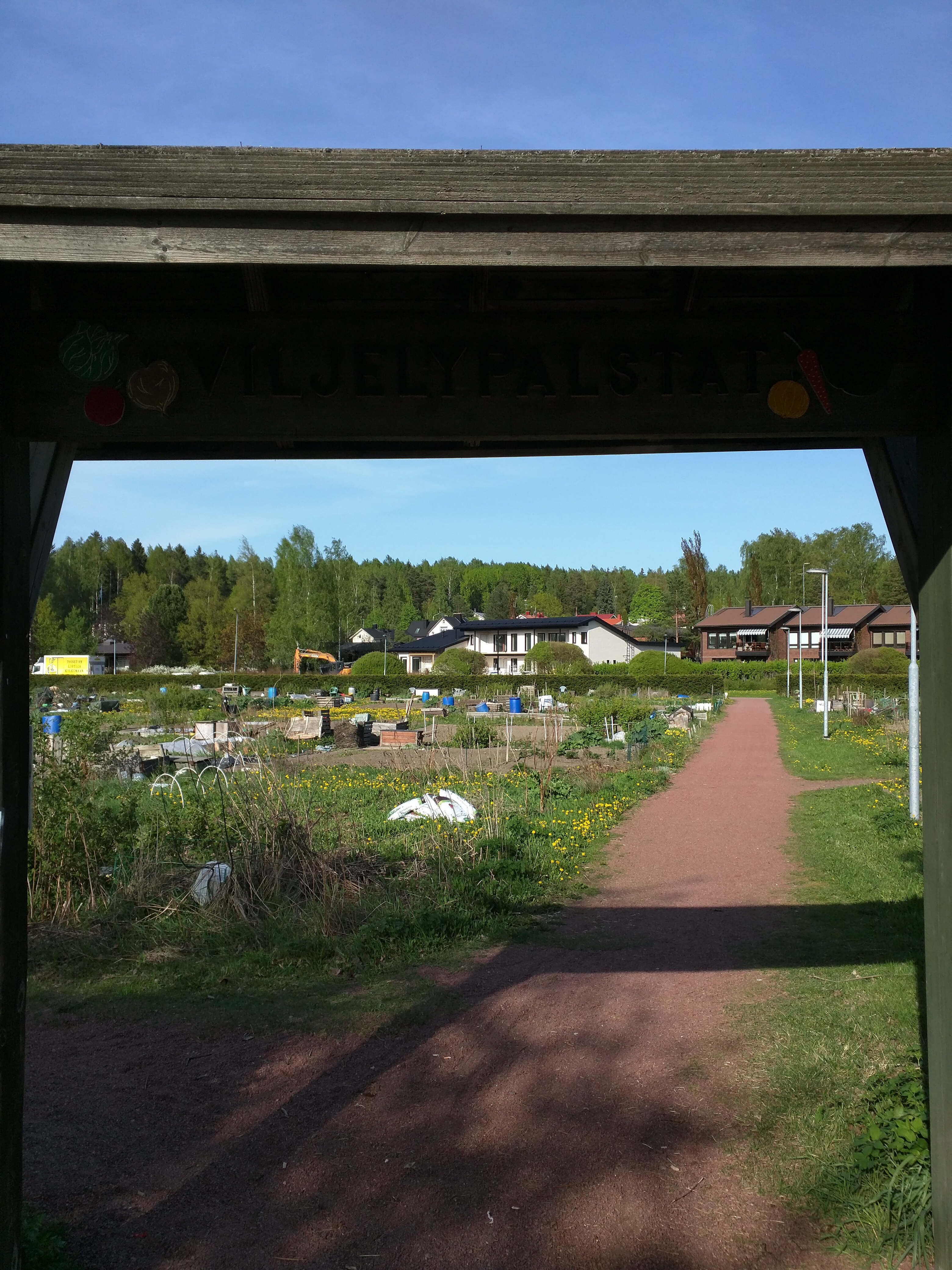 An allotment view in Nummisuutarinpuisto, public park area in Helsinki, Finland.